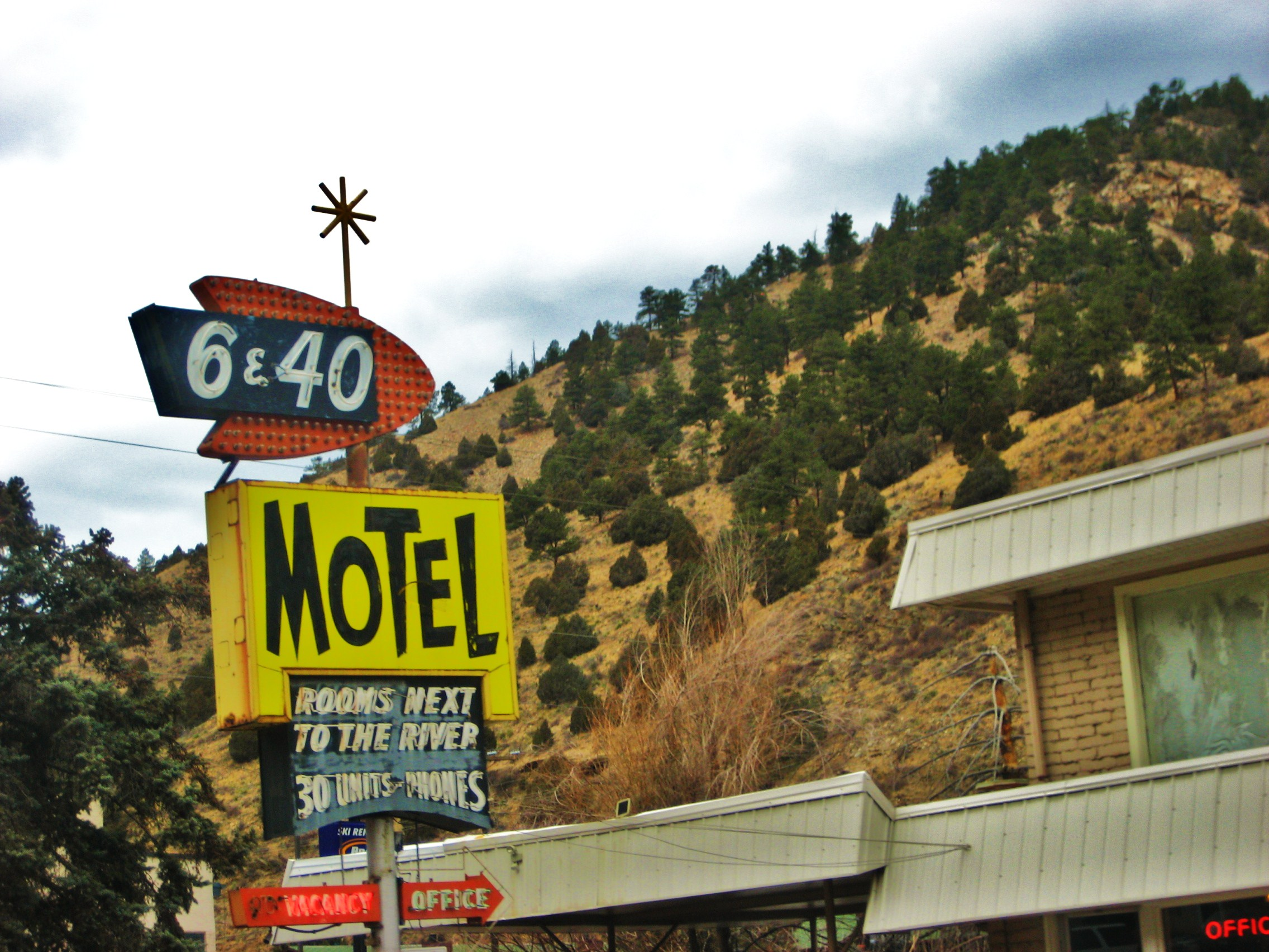 Sign of motel in east Idaho Springs, Colorado on Hwy 6/40.